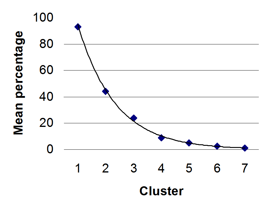 Graph showing the frequencies with which elements appear in the list of metalloid lists, grouped by mean clusters